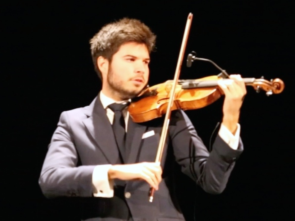 Paco Montalvo Live Concert